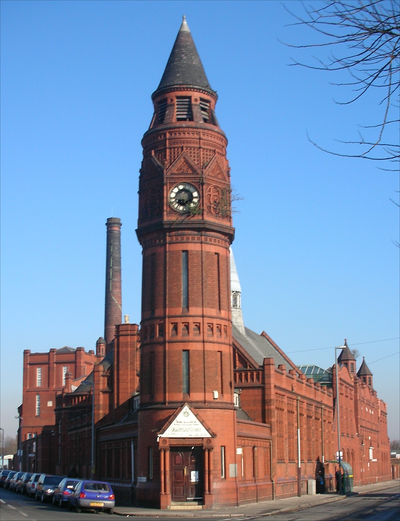 Green Lane Masjid, a mosque, on Green Lane, Small Heath, Birmingham, England. Built as a public library and swimming baths, designed by local architects Martin & Chamberlain, 1893-1902.